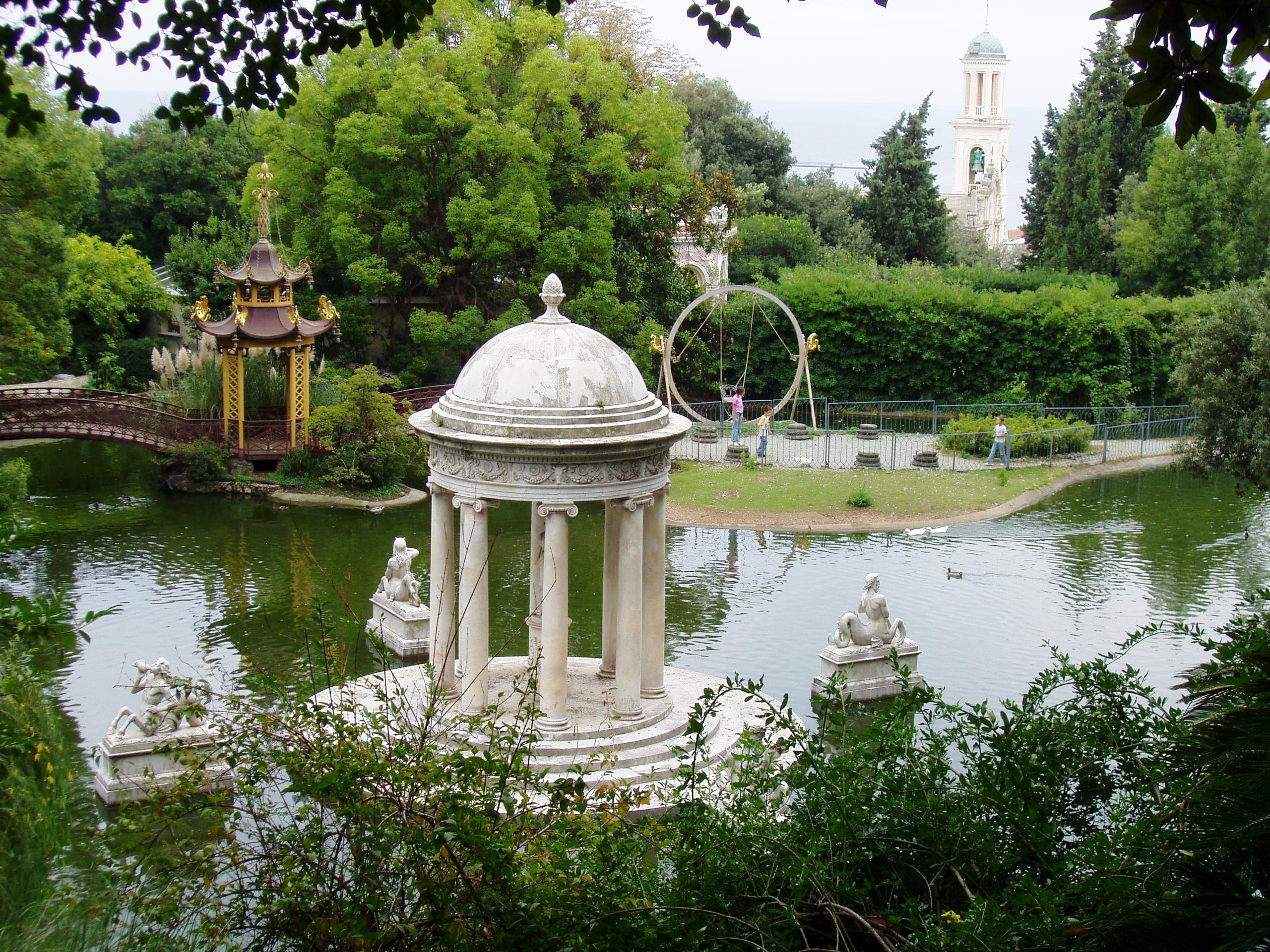 Villa Durazzo-Pallavicini - the lake. Pegli, Italy. Around 1880s. In 2006.